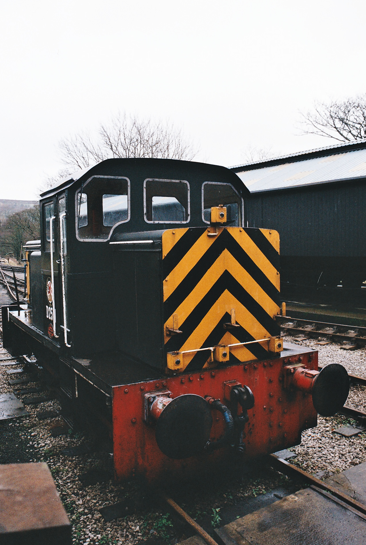 Hudswell-Clarke 0-6-0 D2511, K&WVR, November 2012 Photo04_2